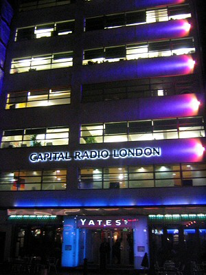 Capital Radio's HQ, London (at night). Small version of image:capital_radio_london.jpg. Image description. Date: 18th March 2004 20:30 8 ISO: 400 Photograph: ed g2s • talk